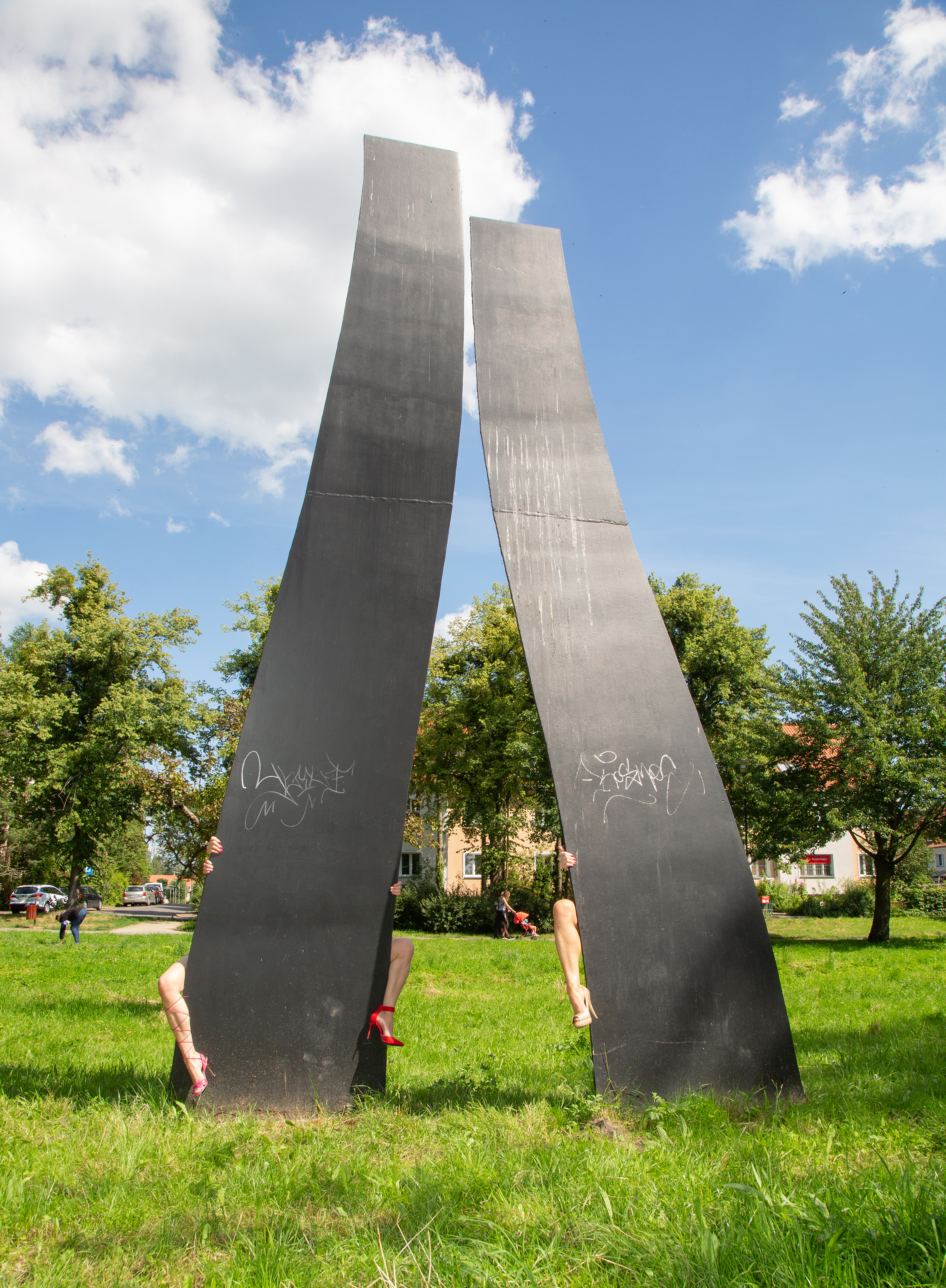 The spatial form by Zbigniew Dłubak is 7 meters high, created as a part of the 1st Biennale of Spatial Forms in Elbląg (1965), currently located in the Michał Kajka Park in Elbląg. It was made in cooperation with: Z. Czarnecki, S. Rusin, S. Szymański, L. Ciesielski, A. Tażuszel, J. Gdreń, E. Grzybowiński. In the photo visible parts of visual artists’ bodies: Iwona Demko and Agata Zbylut with curator Karina Dzieweczyńska, while working on the project entitled "Congress of dreamers / Kongres Marzycielek” carried out at the Art Center Gallery EL.